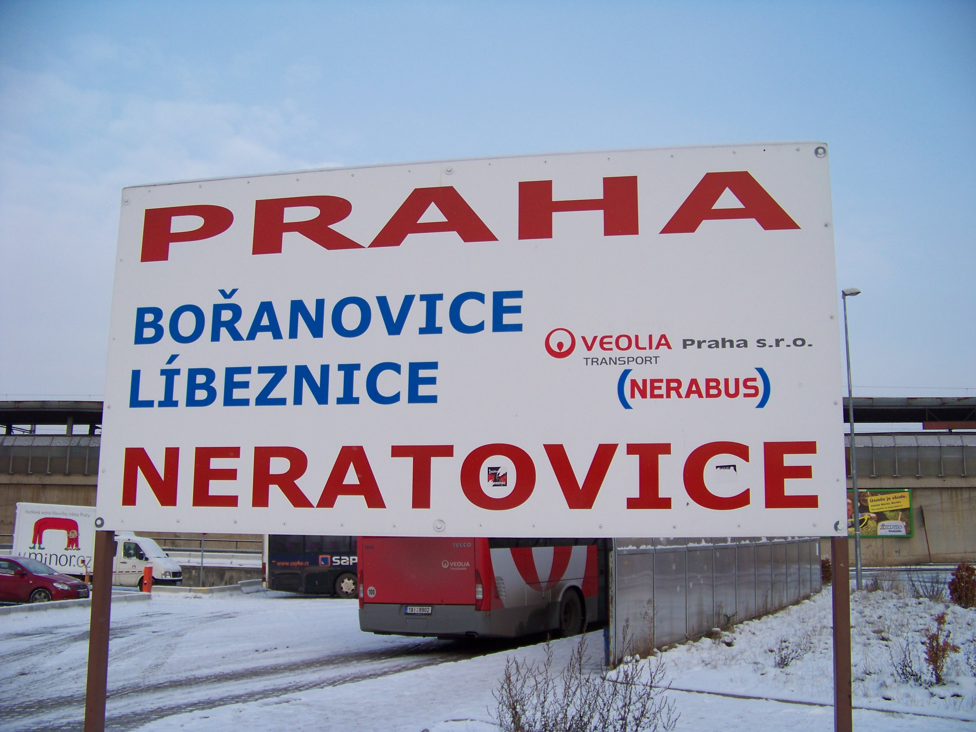 Holešovice, Prague, the Czech Republic. Intercity bus station "Praha, Nádraží Holešovice". - Google Maps - Google Earth